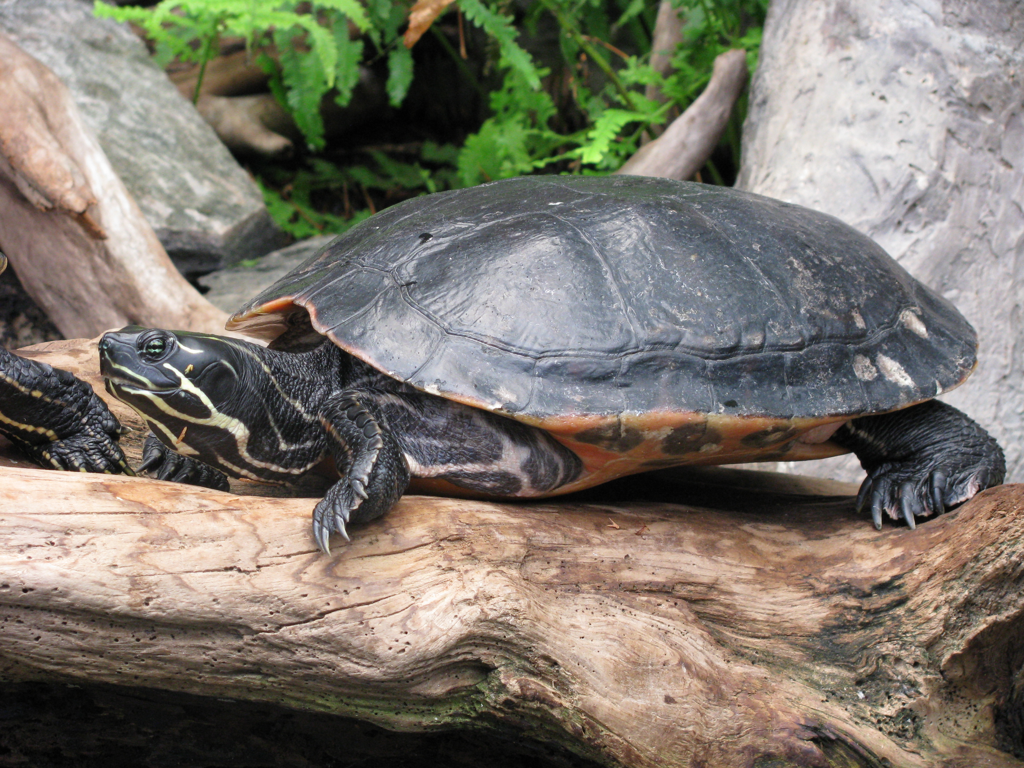 A Pseudemys scripta scripta en commonly known as a Yellow-bellied slider turtle. Photo taken at the North Carolina Aquarium on Roanoke Island.